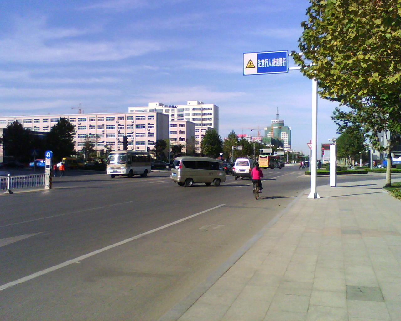 Shouguang city. Windy but shiny day.